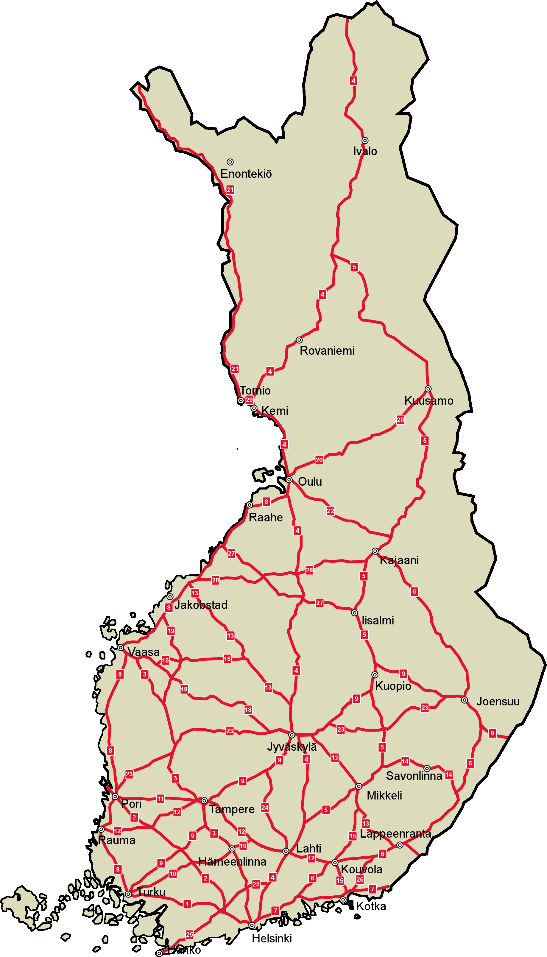 Map of the 1st class main roads in Finland.